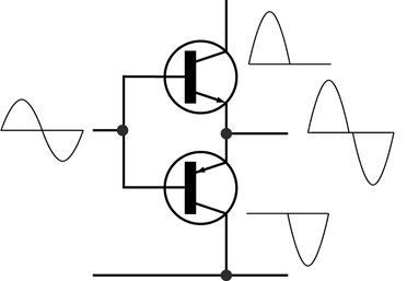 Diagram of a Push-pull amplifier